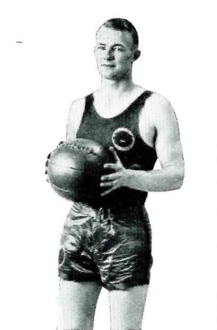 Montana State University Basketball Player Cat Thompson in 1930